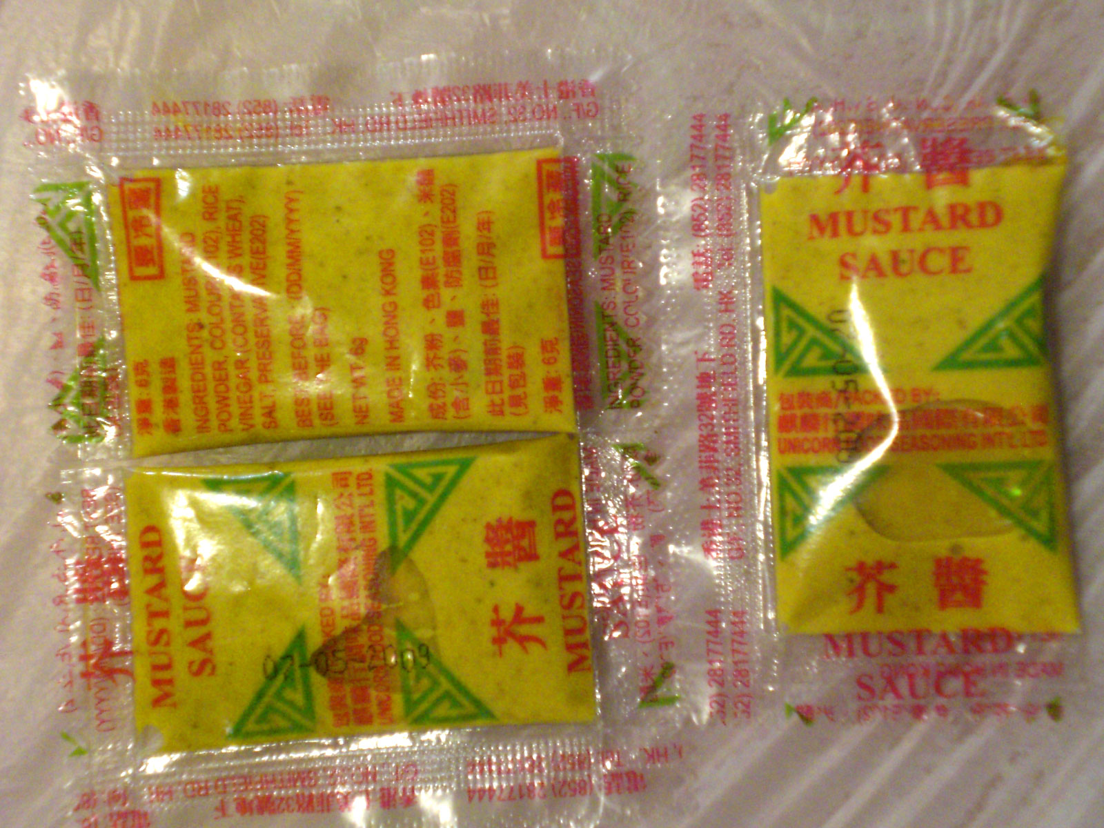 Mustard Sauce in little plastic bags.